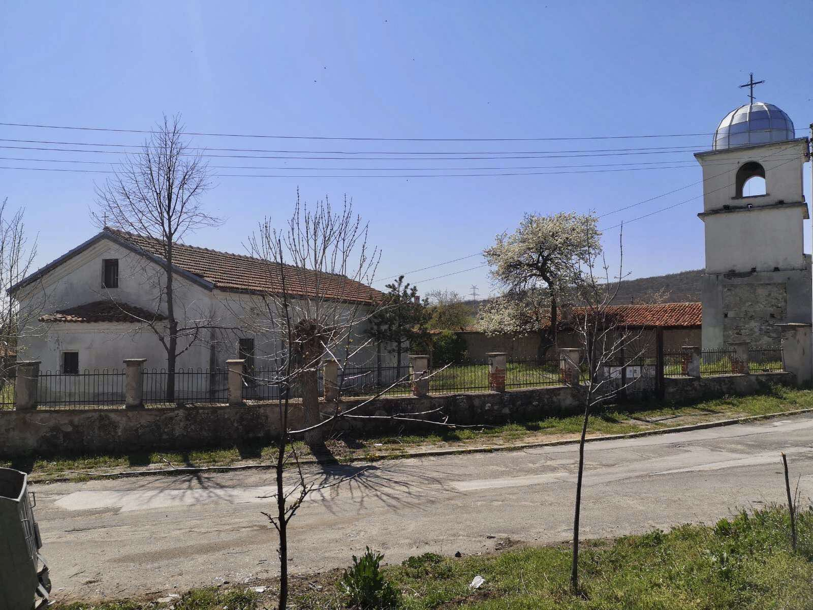 Ivan Vazovo church